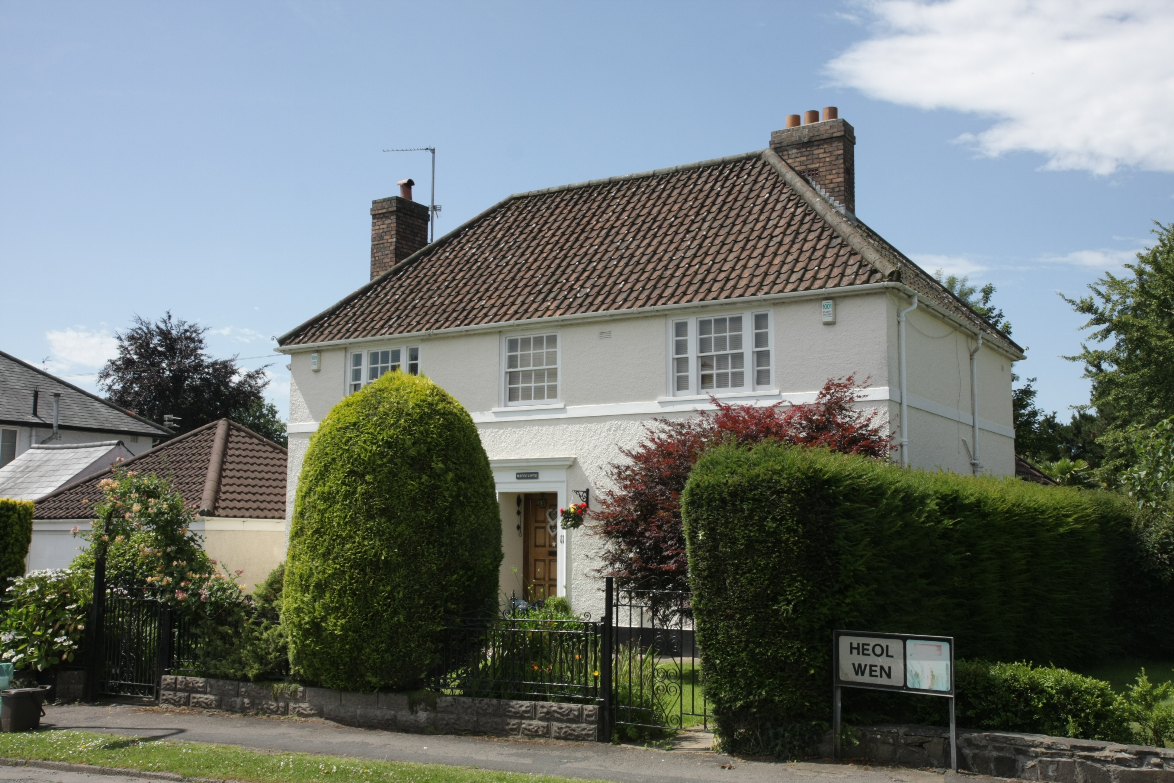 Hafod Lwyd, House in Rhiwbina Garden Village, Cardiff. Designed for his own occupation by the architect T. Alwyn Lloyd, c. 1920. Grade II listed building